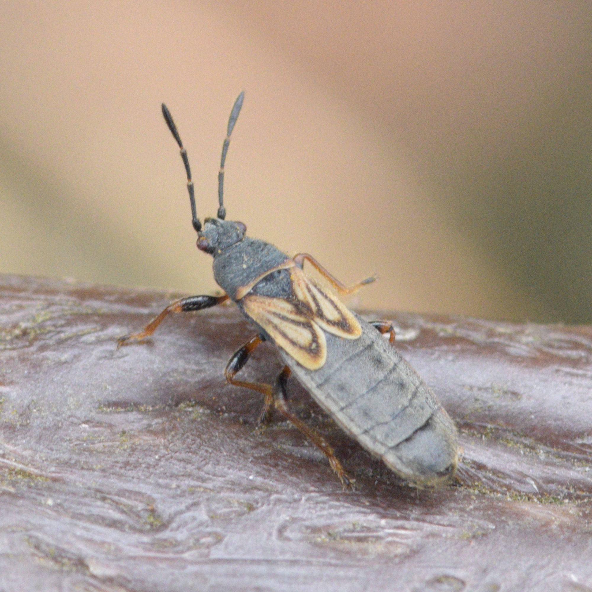 Ischnodemus sabuleti micropterous form photographed in Adams Road sanctuary, Cambridge, September 2014.